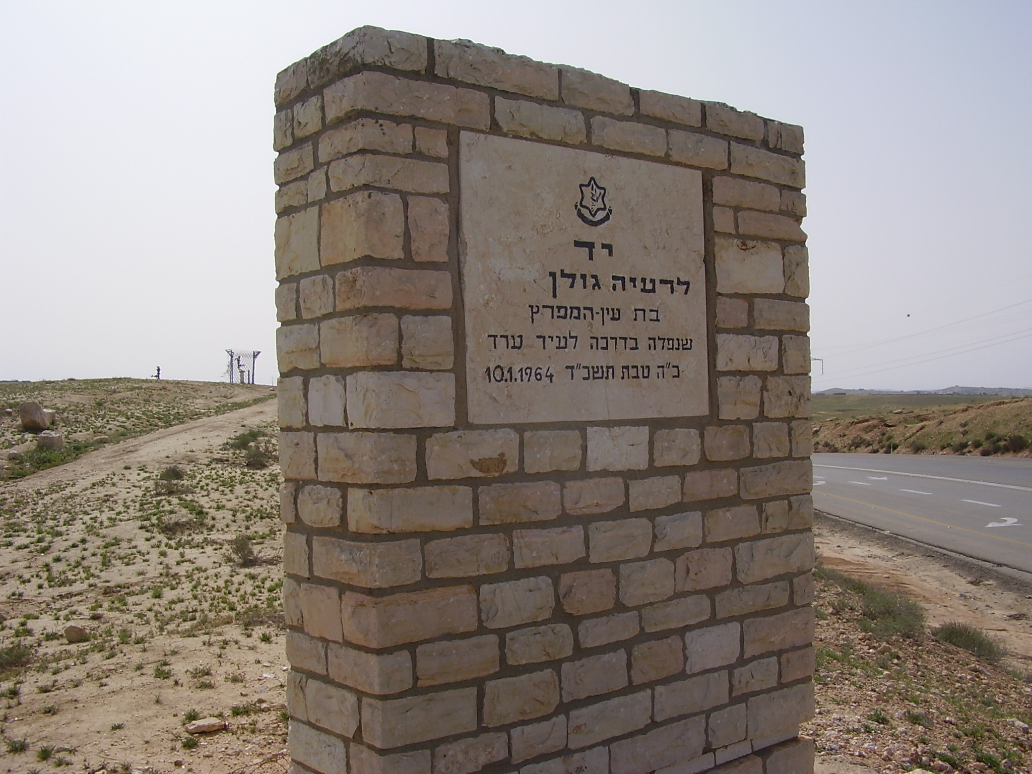 memorial to the soldier raiya golan who was murdered in the negev in 1964 אנדרטה בצומת יתיר לחיילת רעיה גולן שנרצחה במקום זה ב-10/01/1964